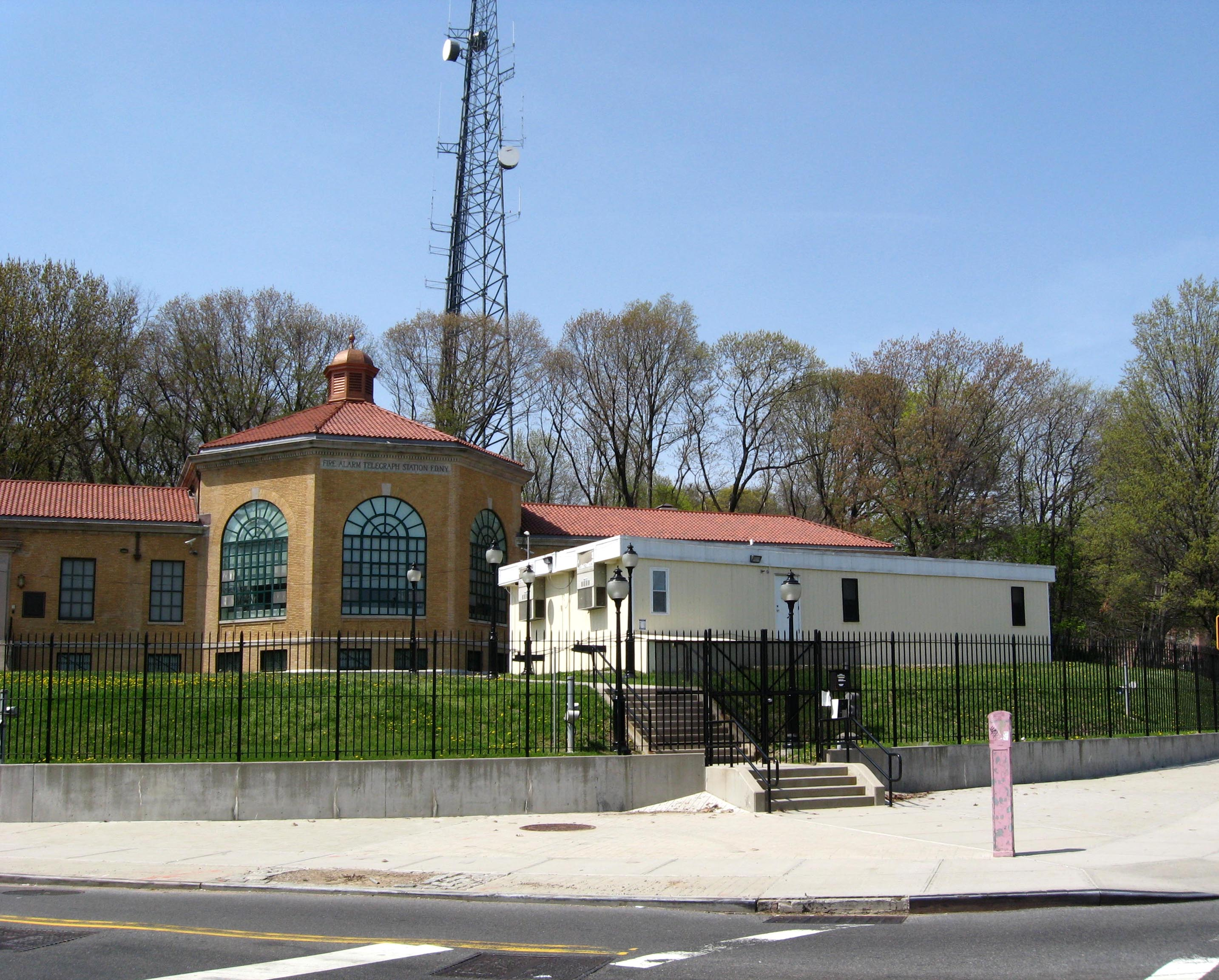 Looking northwest at wiki/FDNY#Bureau_of_Communications telegraph station at Woodhaven Blvd and Park Lane South on a sunny spring afternoon.